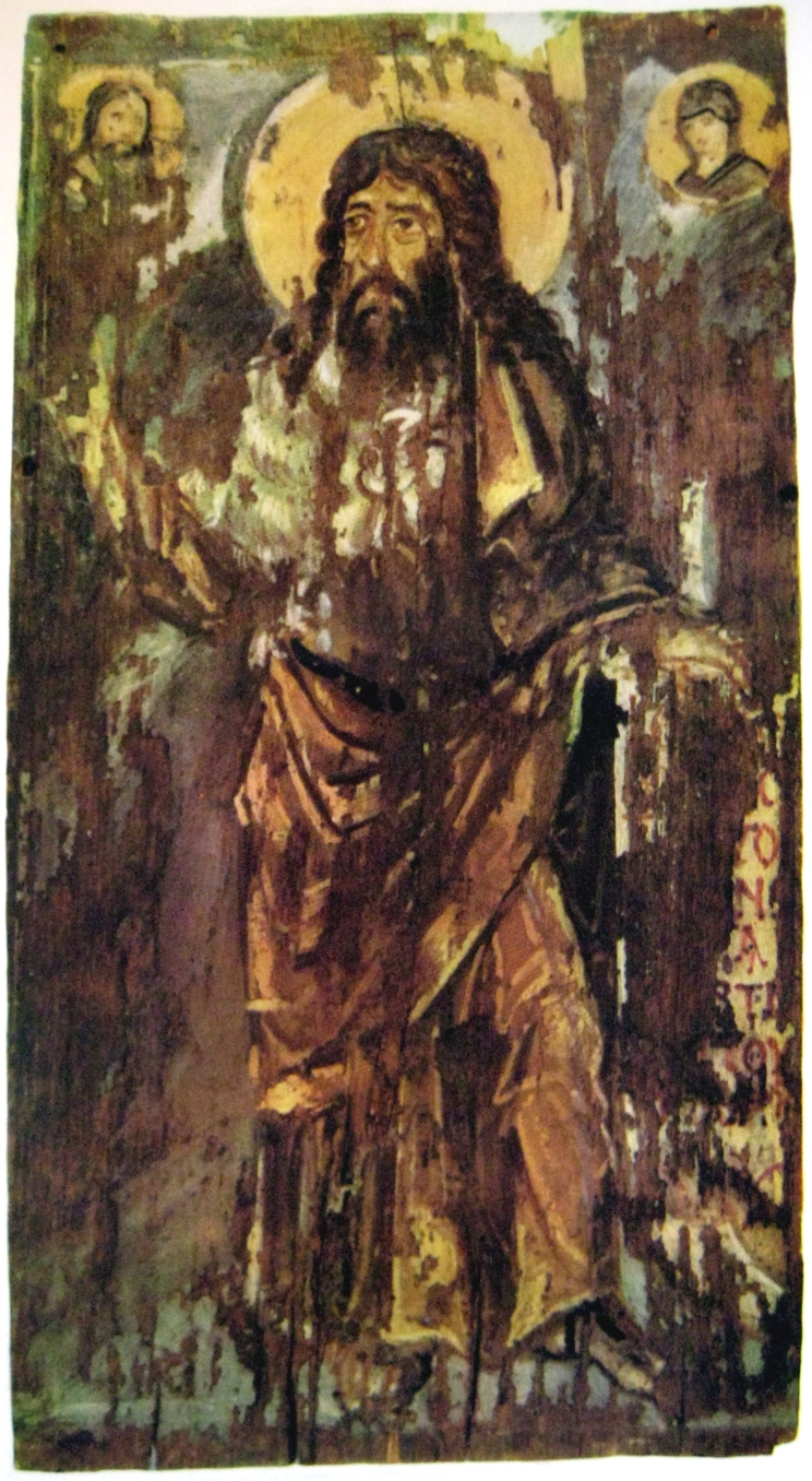 John the Baptist, IV c, encaustic, Kiev museum